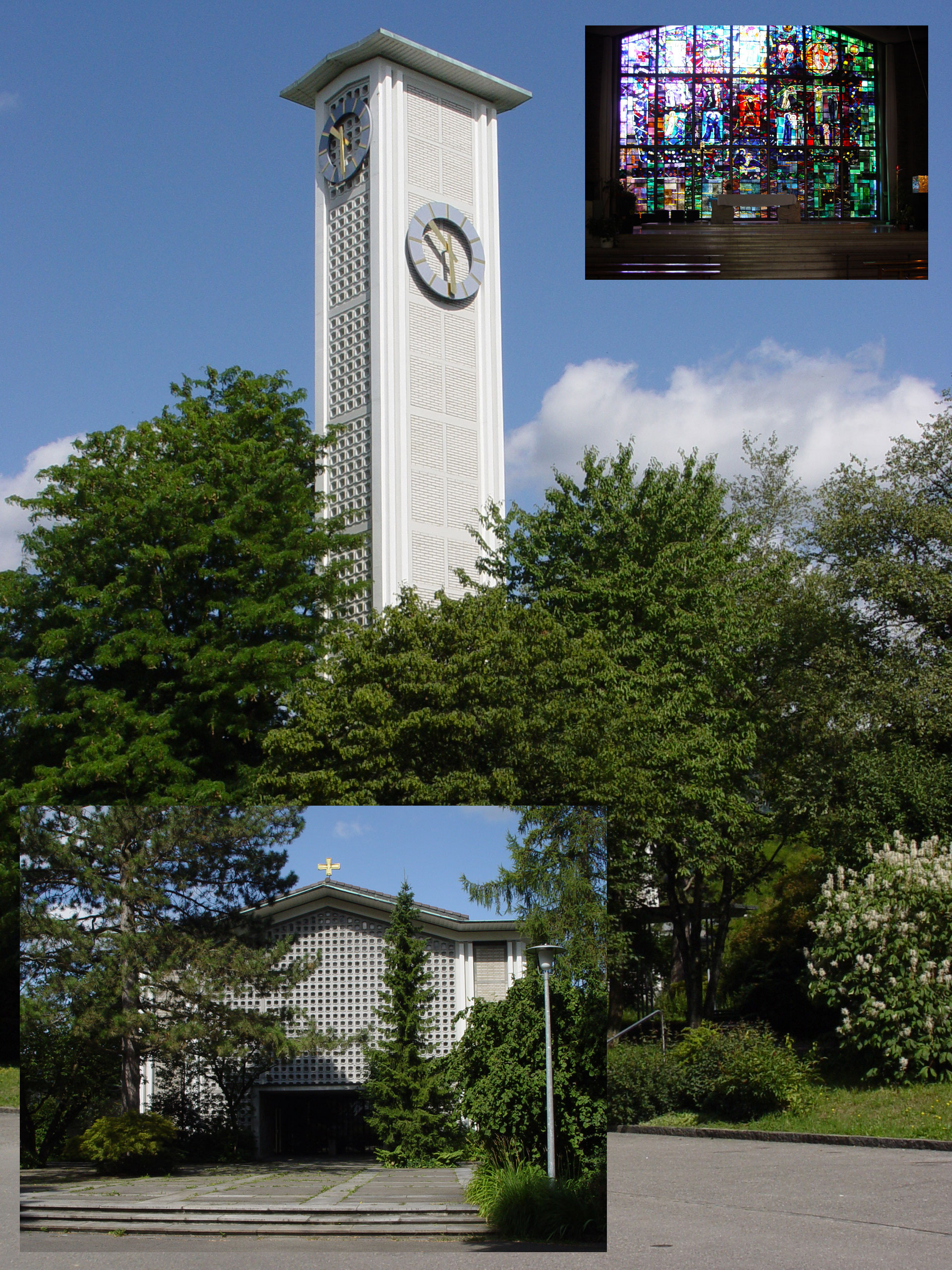 Church of Solothurn West-Vlams: Weststadtkirche (St. Marien) in Solothurn